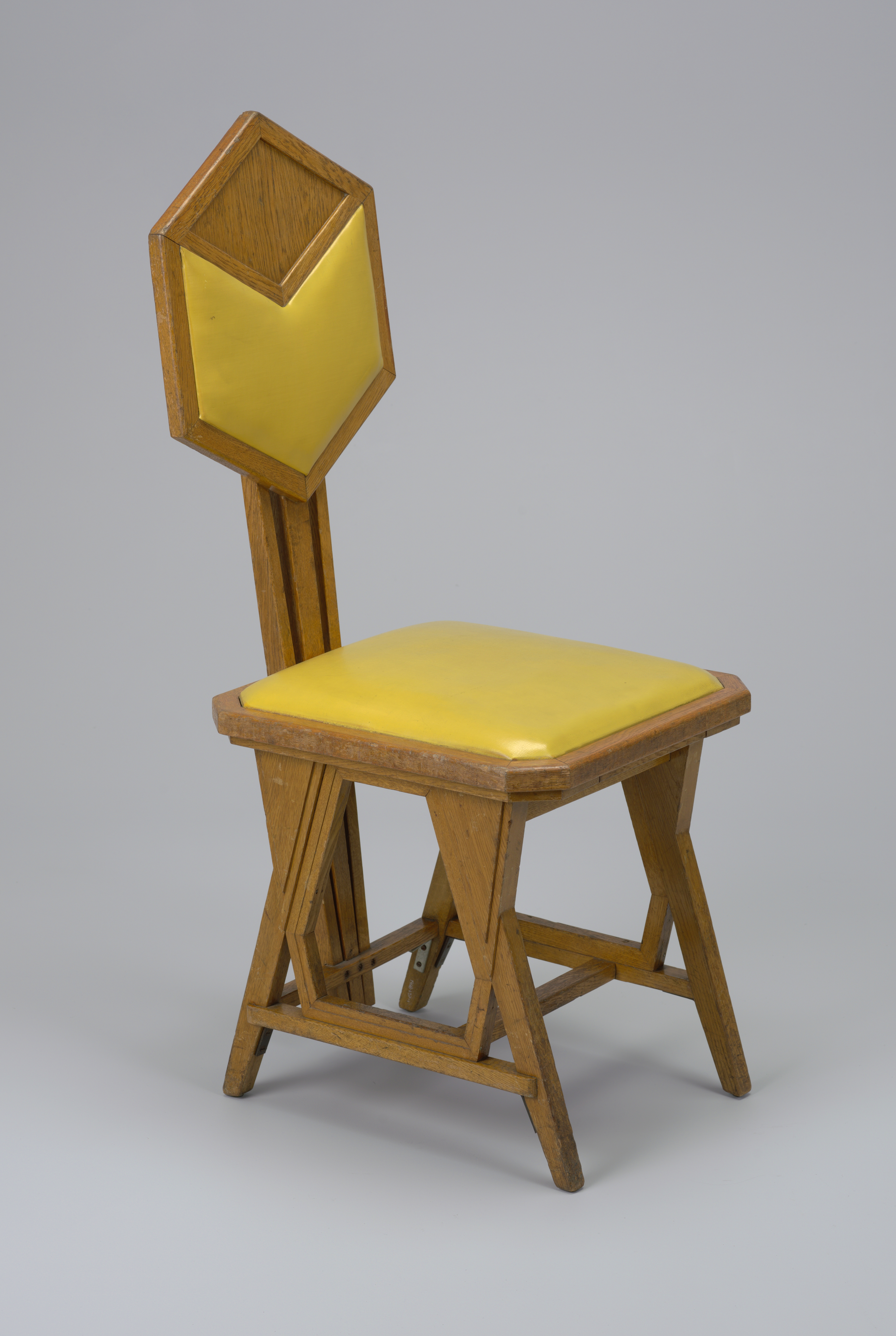 Designed by Frank Lloyd Wright for the Imperial Hotel, Tokyo. Side chair with octagonal seat, hexagonal back supported by three central vertical members which rise from seat stretcher. Legs attached at slanting angles to form triangular voids and solids and irregular hexagonal voids at intersections with stretchers. Slip seat and back panel covered in yellow leatherette. Oak, leatherette upholstery. [chndm_1968-137-1-c]